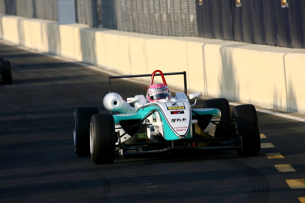 Keisuke Kunimoto driving his TOM's Toyota F3 car at the Macau Grand Prix in 2008.